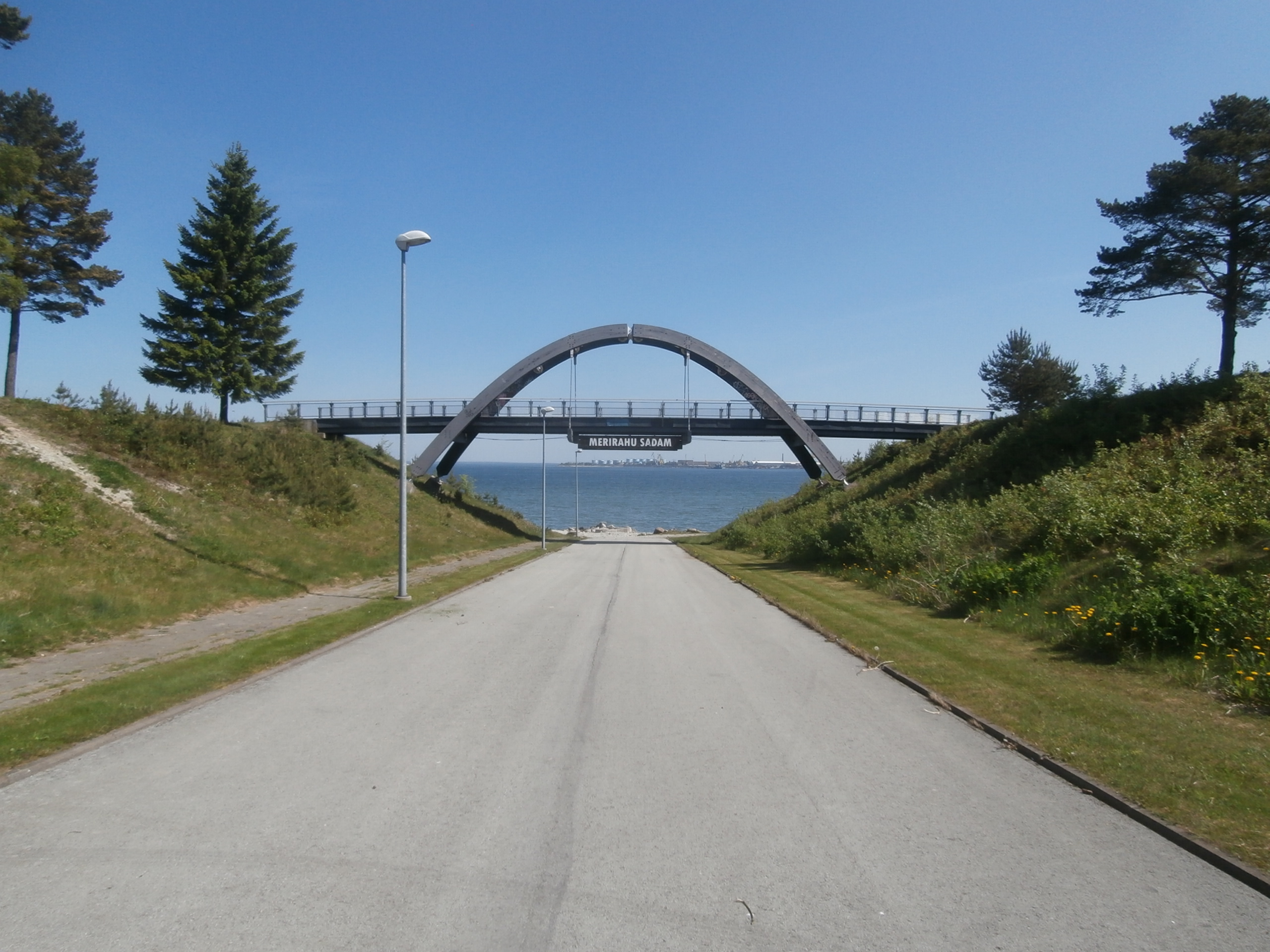 Merirahu Sadam Footbridge Tallinn 24 May 2016 (Hylje in the background)